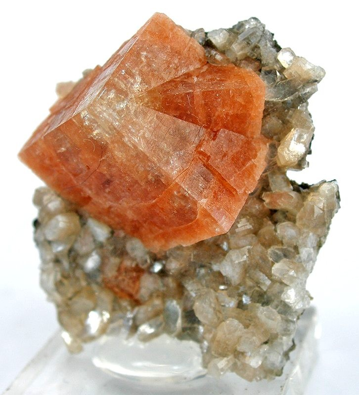 Chabazite-Ca, Heulandite-Ca Locality: Wasson Bluff, Parrsboro, Bay of Fundy, Cumberland County, Nova Scotia, Canada (Locality at ) Size: 3.3 x 2.9 x 1.5 cm. A plate of heulandite featuring an extremely sharp chabazite crystal to approx. 2 cm, with vivid color the most intense I have seen from here. This is an extremely aesthetic miniature, competition level for the species. I believe it also shows off a penetration twin. Lastly, you can see the tip of the crystal is almost gemmy, or as close to gemmy as I can say I have ever seen in the species! This is new material collected recently from this classic old locality that is difficult to access, by my friend Rod Tyson (a semi-retired mineral dealer and well-known Canadian field collector!).